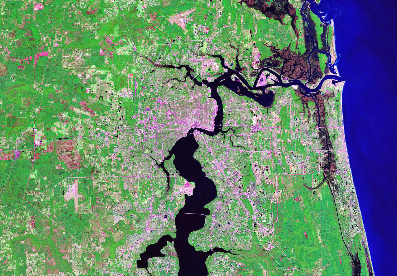 Landsat Image of Jacksonville, Florida, United States and its vicinity.